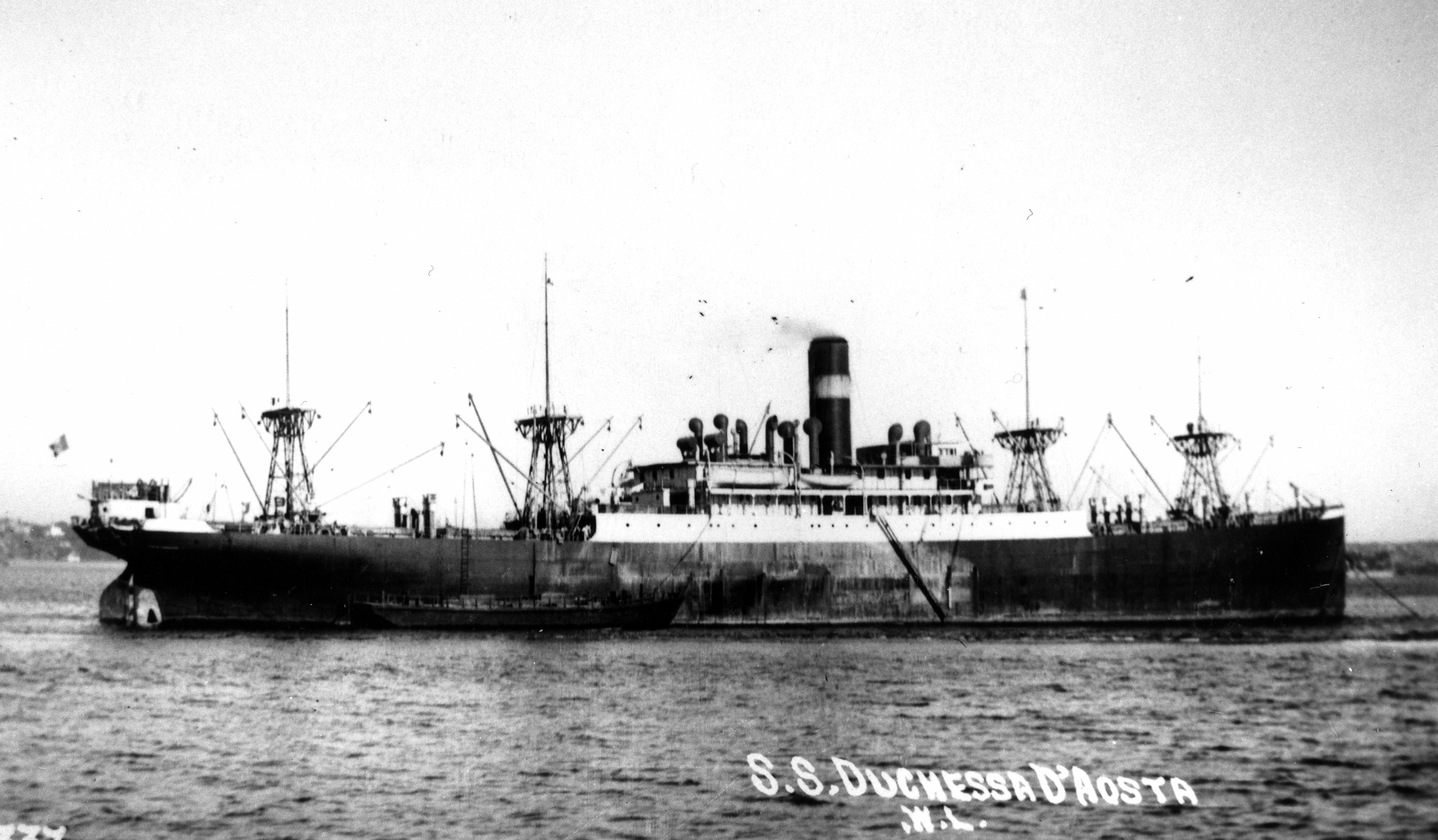 7,872 GRT Italian cargo liner Duchessa D'Aosta, built in 1921 by Stabilimento Tecnico Triestino for Lloyd Triestino. British forces captured her in 1941 and she was transferred to the Ministry of War Transport as Empire Yukon. She was tranfferred to the Canadian Government in 1946 and renamed Petconnie in 1947. She returned to Italian ownership in 1951 as Liu O and was scrapped at La Spezia in 1952.